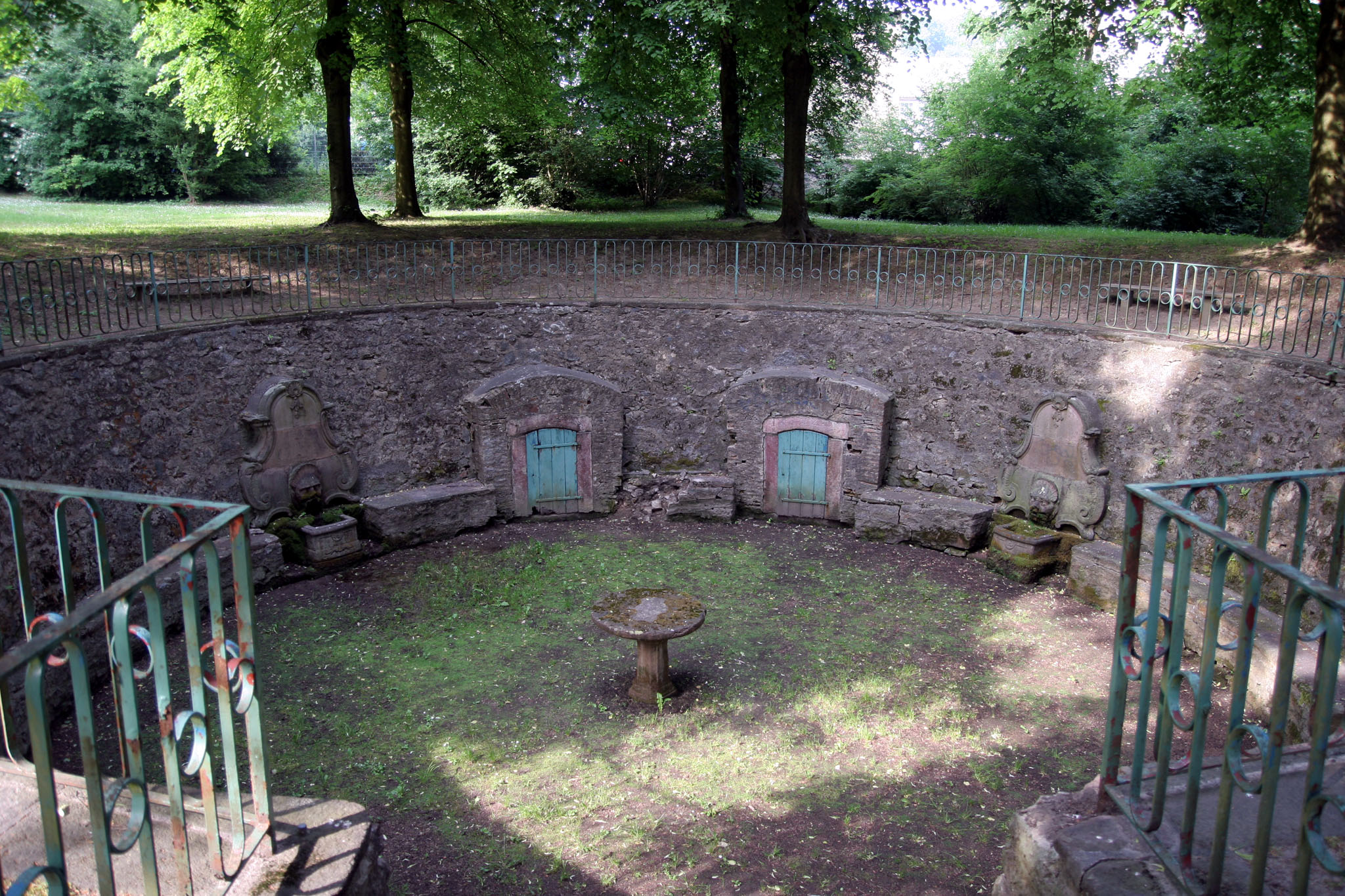 The Goethebrunnen (Goethe Well) in Bensheim-Auerbach (Hesse)